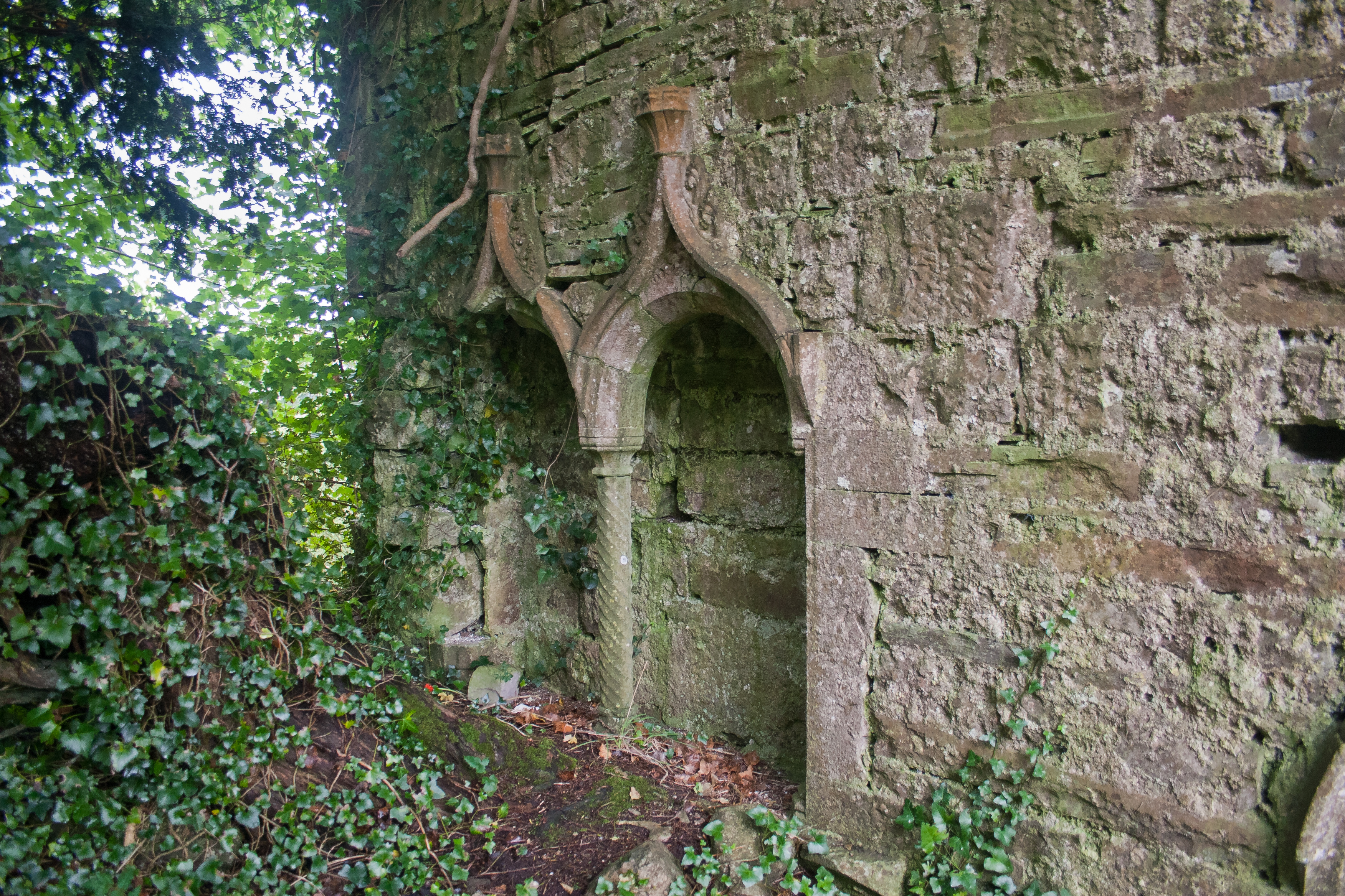 Sedilia at the south wall of the choir.